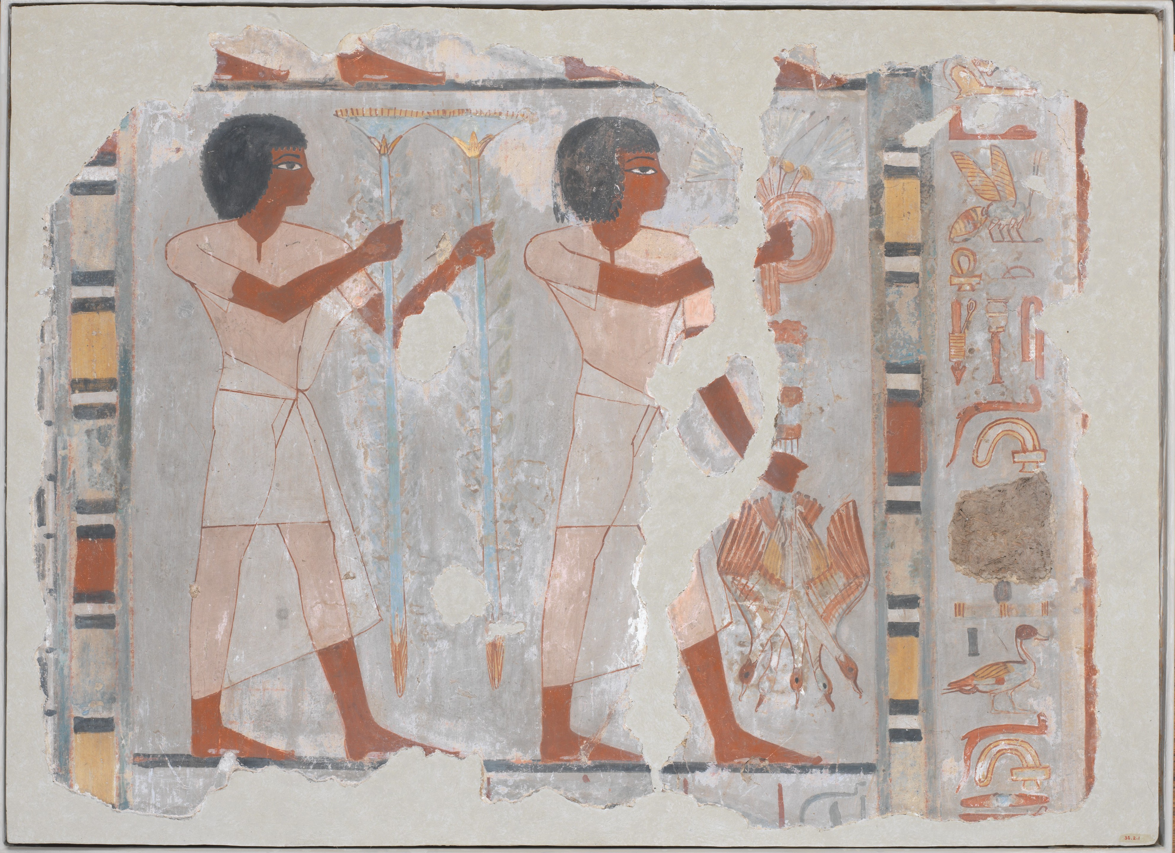 Wall painting, Tomb of Sebekhotep